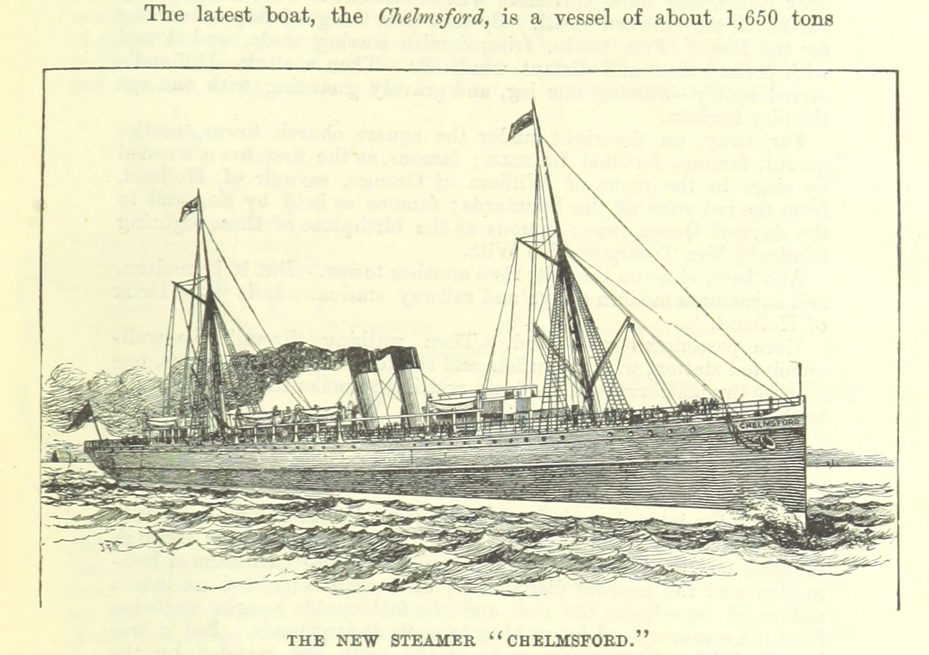 Image taken from: Title: "Holiday Handbooks. Practical guides to less frequented districts. Edited by P. L" Author: LINDLEY, Percy. Shelfmark: "British Library HMNTS 10027.cc.20." Page: 13 Place of Publishing: ] London Date of Publishing: 1885 Publisher: [Great Eastern Railway Co. Issuance: monographic Identifier: 002174470 Explore: Find this item in the British Library catalogue, 'Explore'. Open the page in the British Library's itemViewer (page image 13) Download the PDF for this book Image found on book scan 13 (NB not a pagenumber)Download the OCR-derived text for this volume: (plain text) or (json) Click here to see all the illustrations in this book and click here to browse other illustrations published in books in the same year. Order a higher quality version from here.